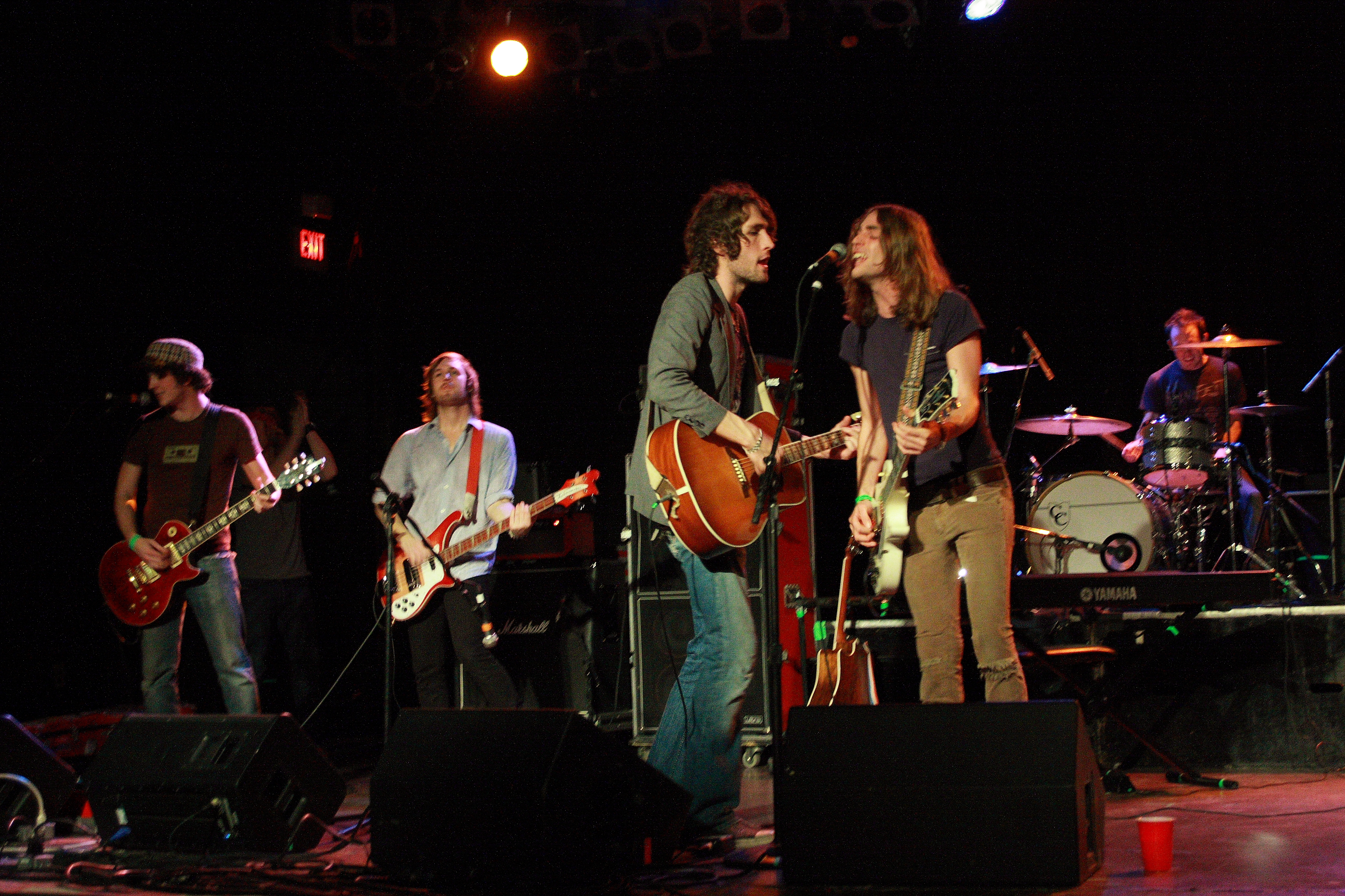 Green River Ordinance performing at Music Farm, March 10, 2009